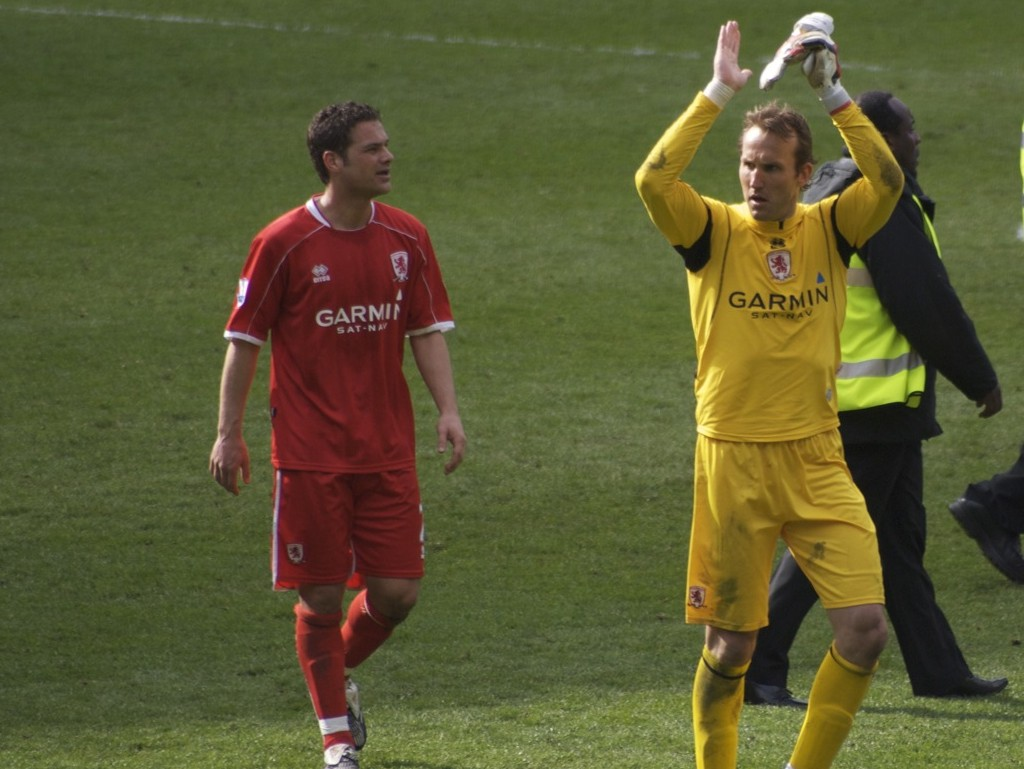 Middlesbrough FC players (at time of photograph) Luke Young (left) and Mark Schwarzer (right).